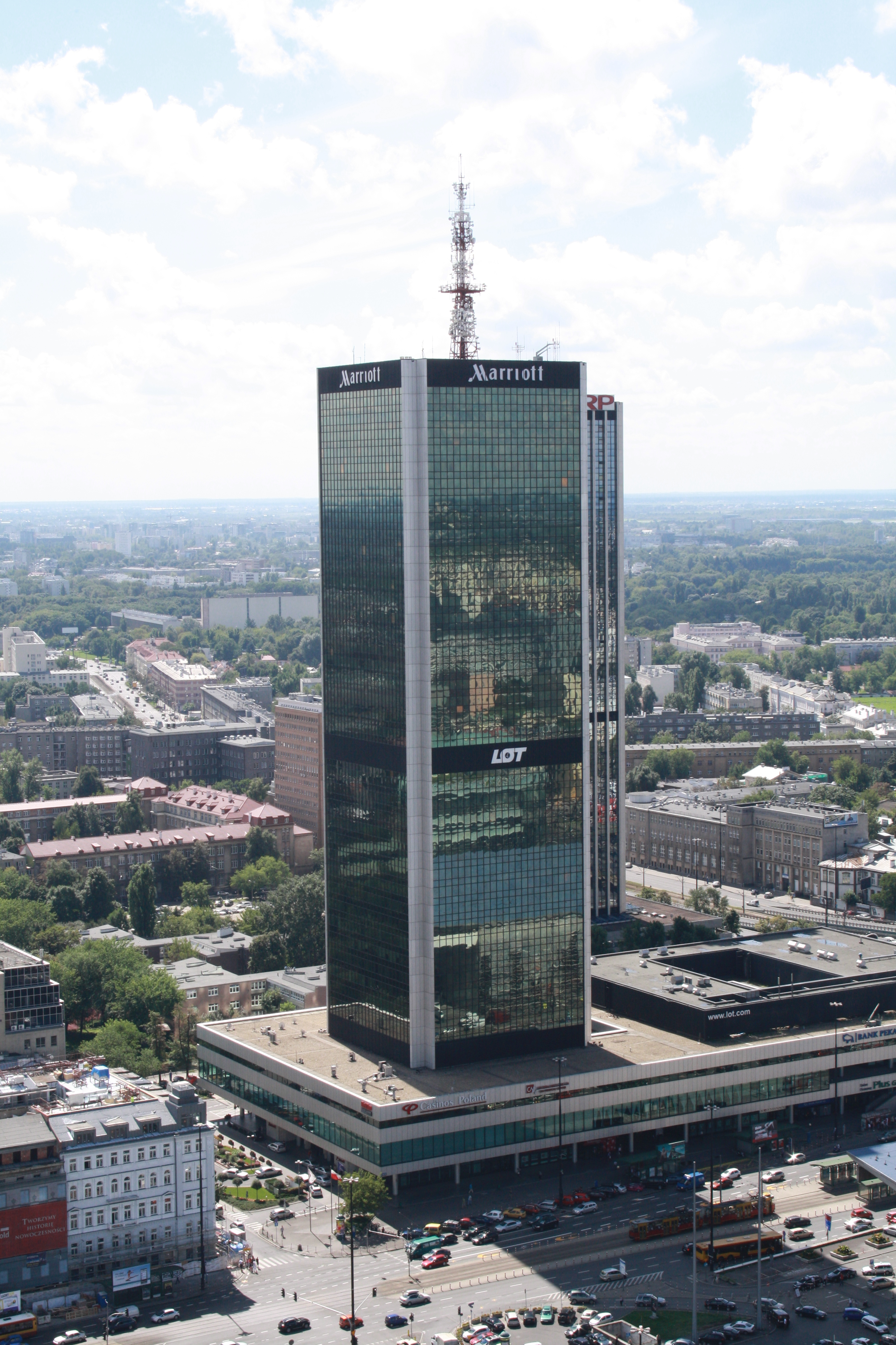 Hotel Marriott in Warsaw taken from the Palace of Culture and Science observation deck.